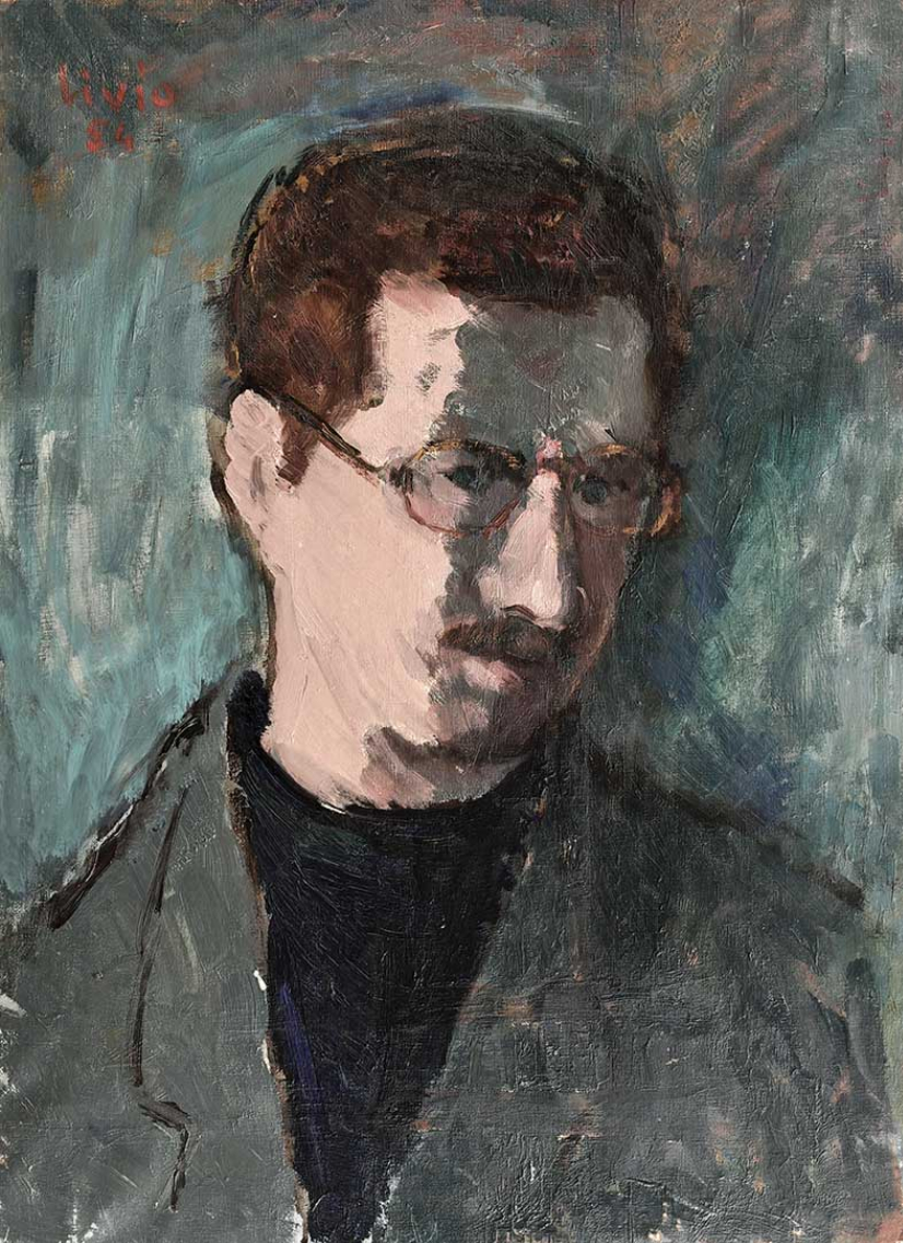 Silvio Livio Rossi self-portrait 1954